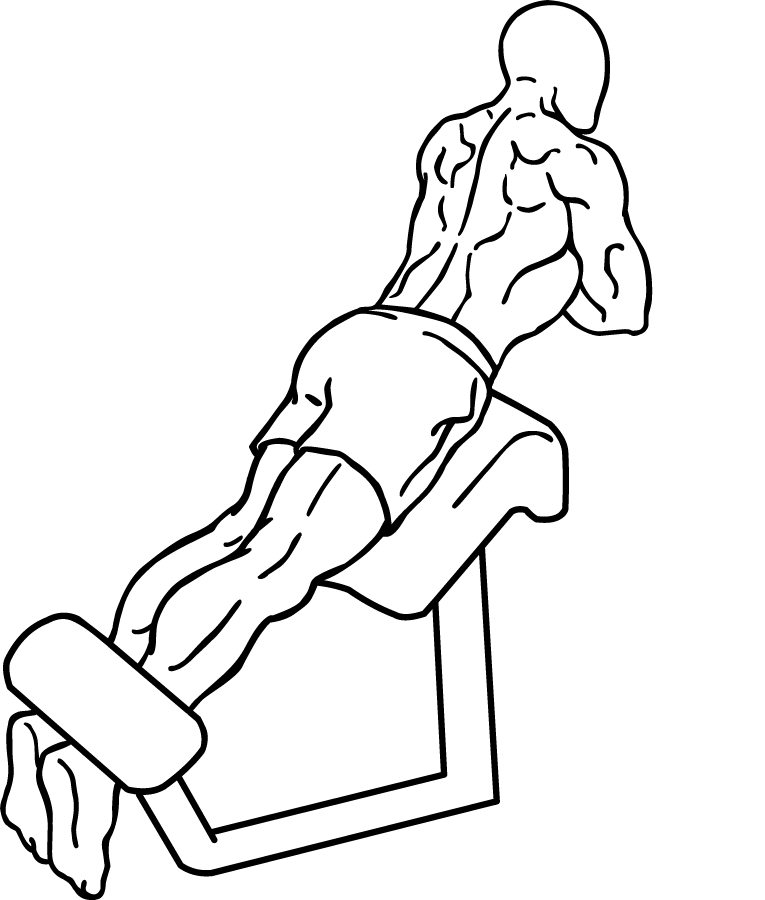 an exercise of lower back